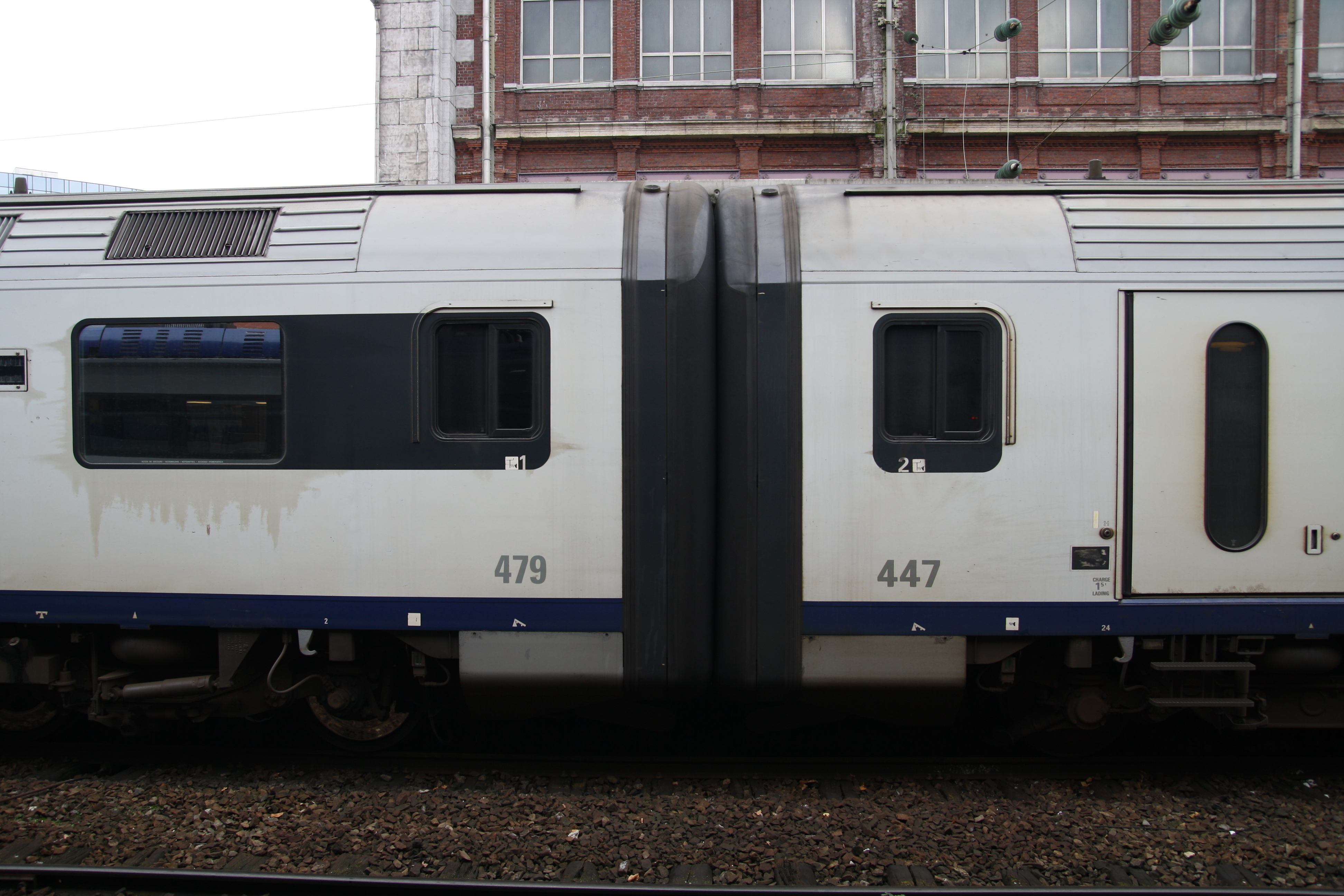 Two AM96 EMU coupled at Lille-Flandres station.